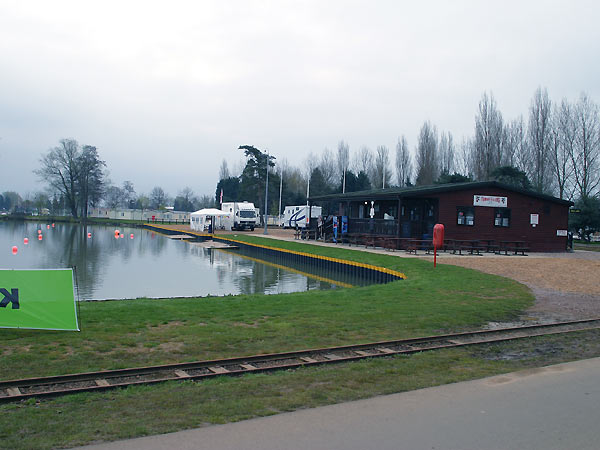 Billing Aquadrome, showing the narrow gauge railway